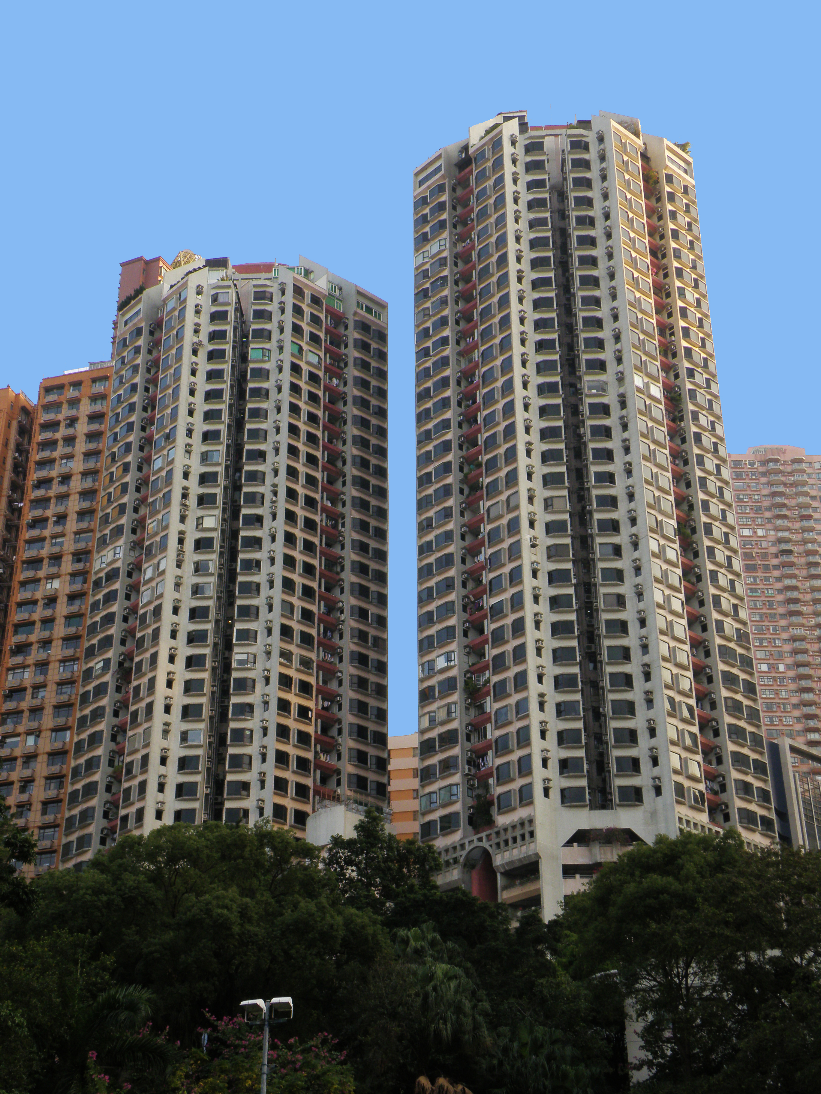 Euston Court in Sai Ying Pun, Hong Kong.